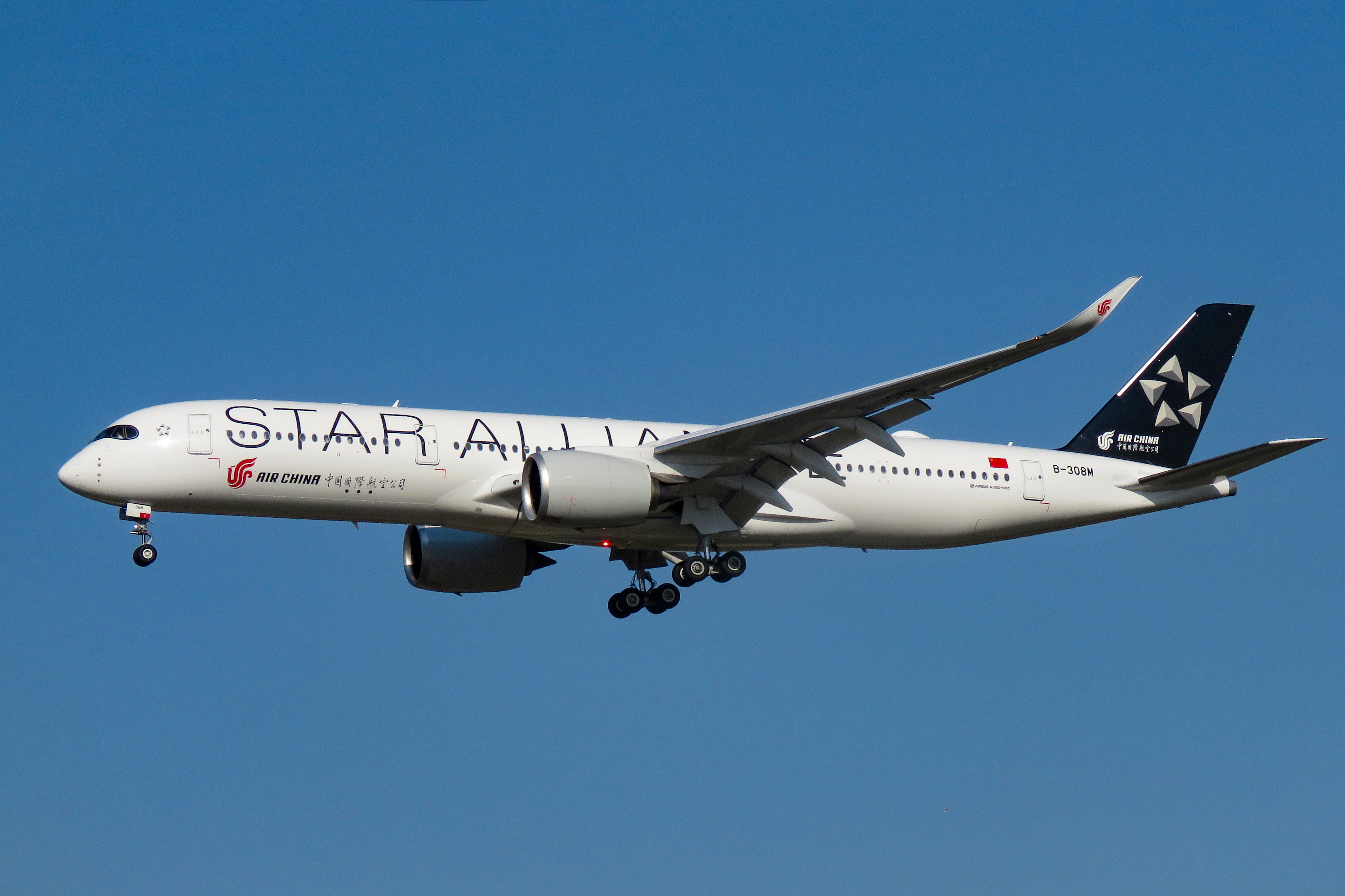 Air China 1558 from Shanghai Hongqiao. Today it came to runway 01 instead of 36R, capturing the best illumination of summer days. Tomorrow it would fly CA1405/6/7/8 Chengdu flights.